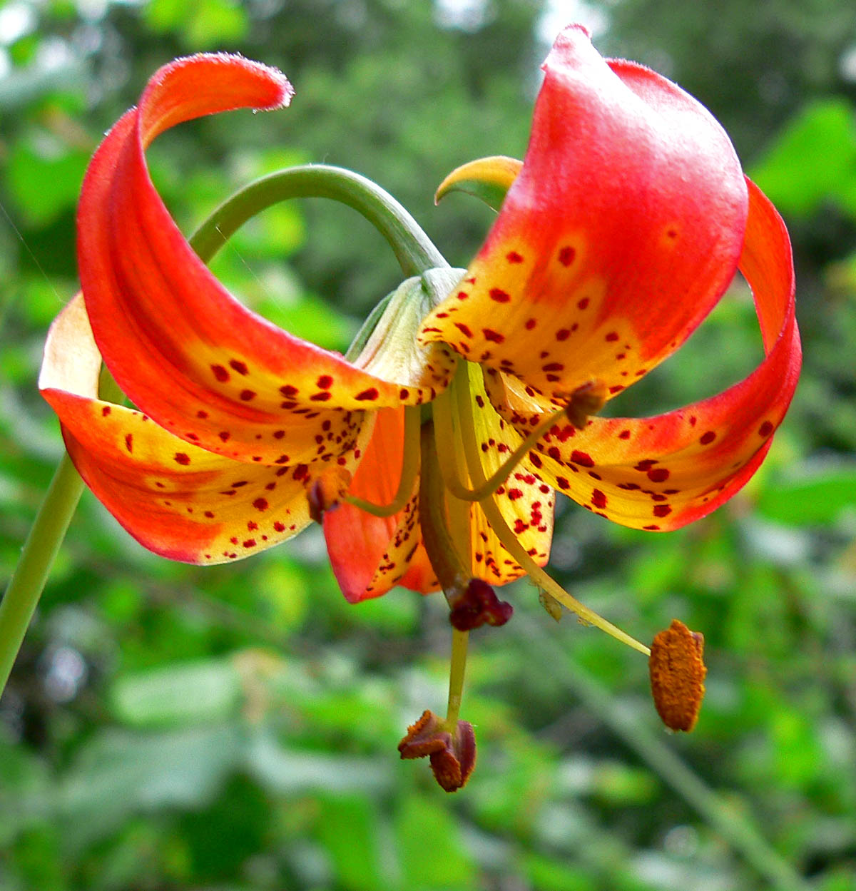 Photo of Lilium pardalinum ssp. pitkinense at the University of California Botanical Garden